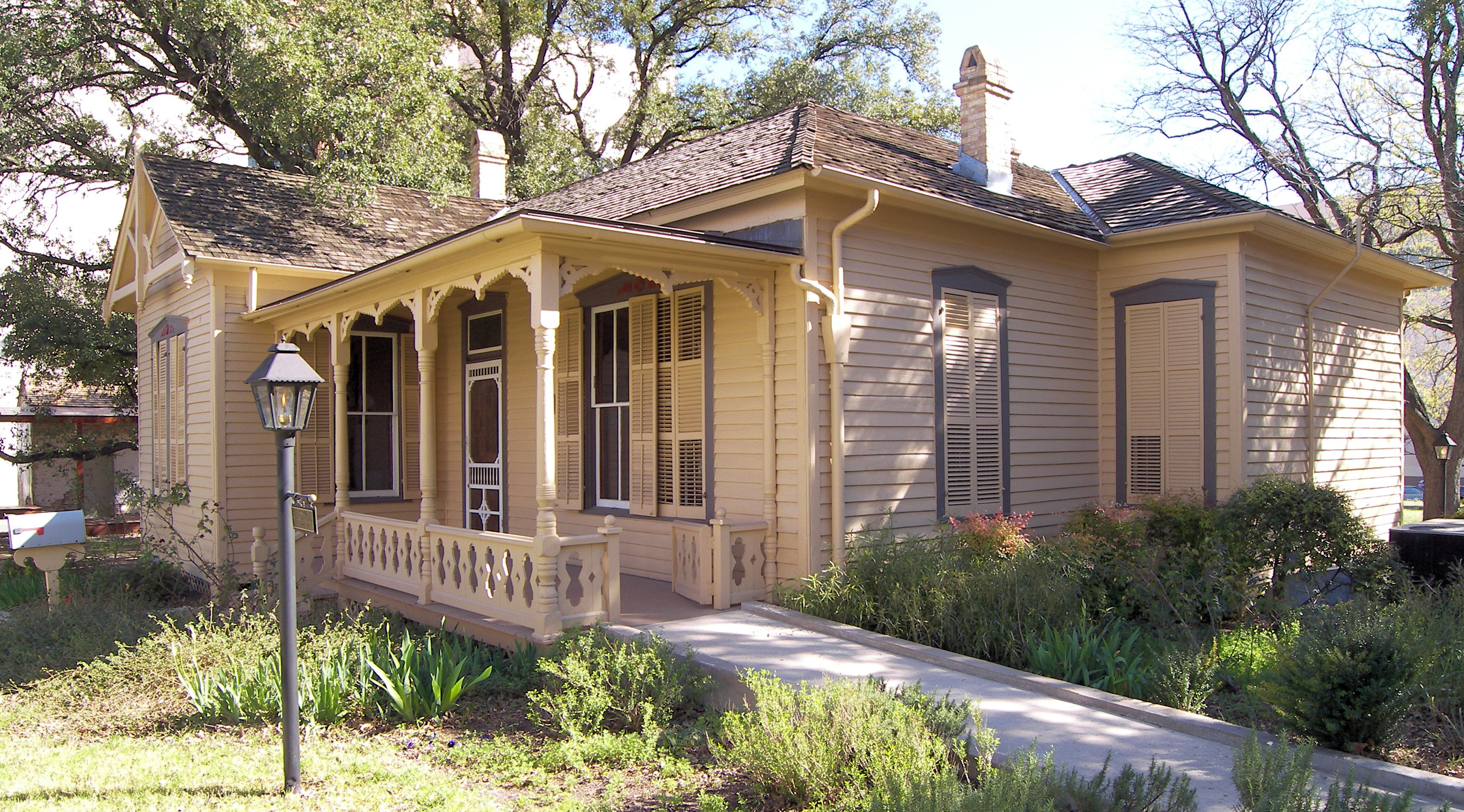 The William Sidney Porter House, Austin, Texas, United States.The structure was added to the National Register of Historic Places on June 18, 1973.